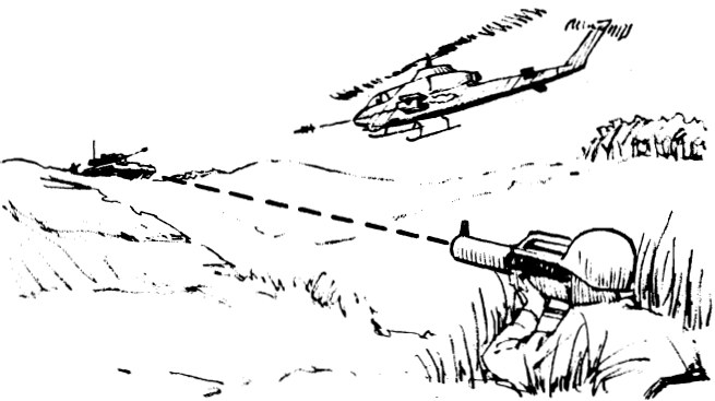 Ground-based laser illumination for heliborne attack of a targeted tank with air-to-ground missiles and rockets